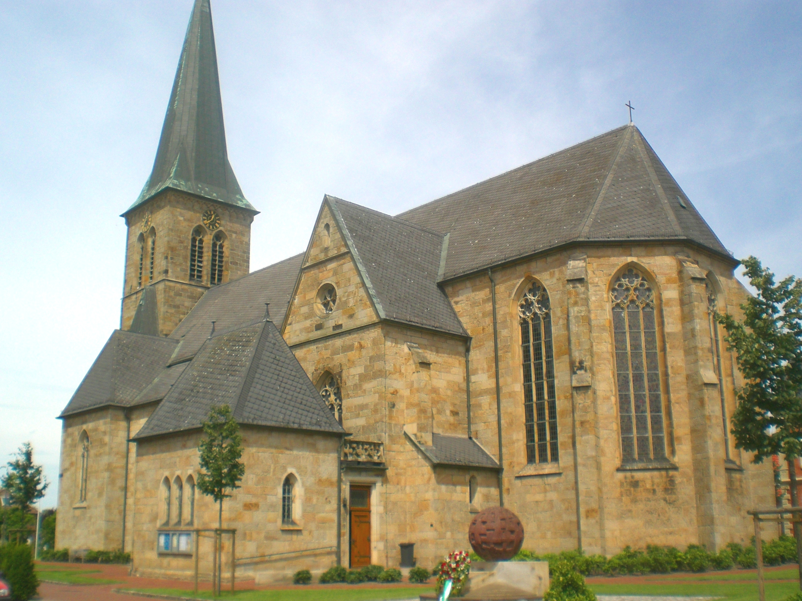 The catholic church in Neuenkirchen, Neuenkirchen-Vörden, Lower Saxony, Germany